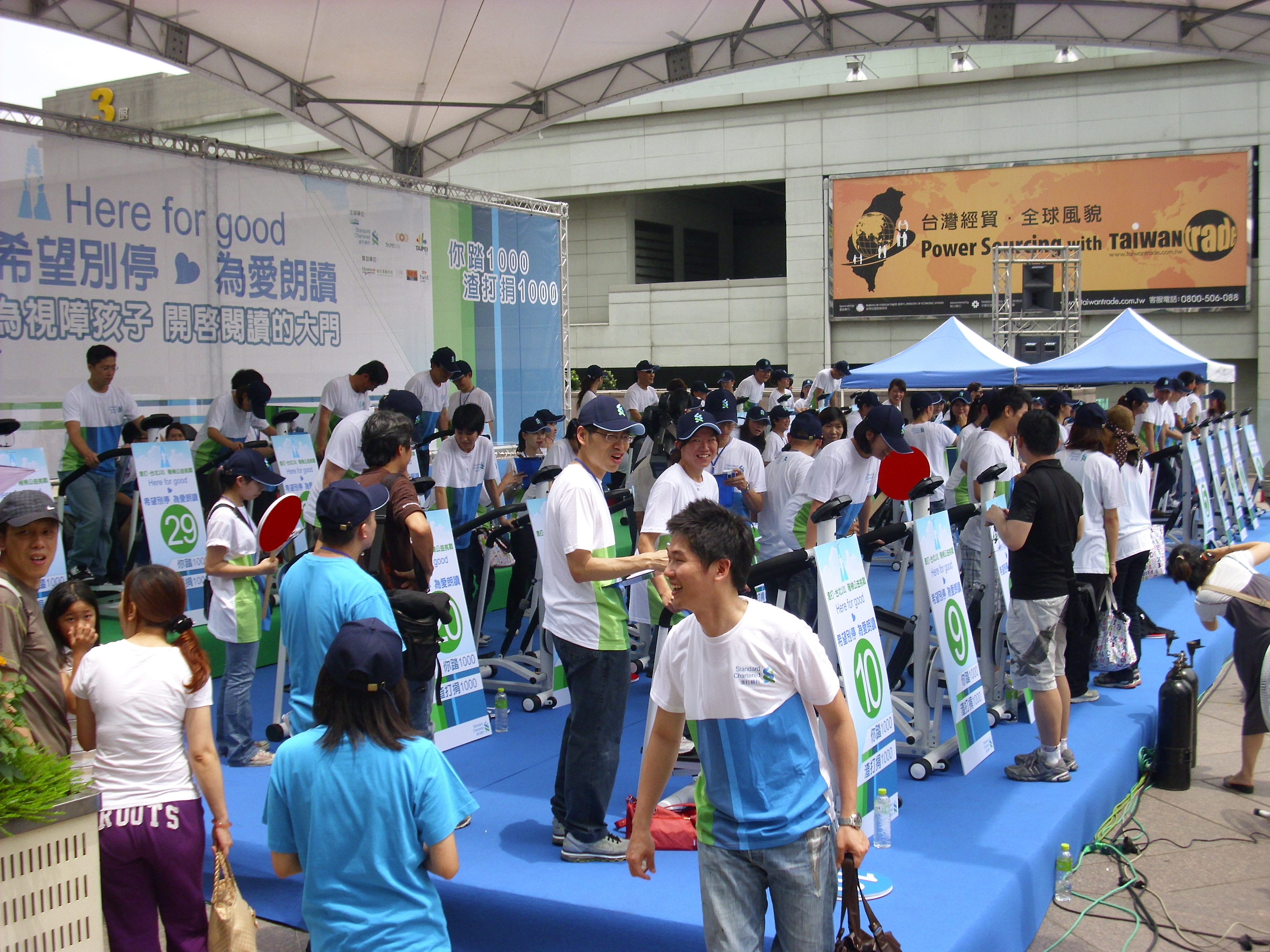 2010 Taipei 101 Run Up - Charity Event.